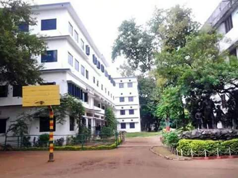 Image of Indo english school,Rourkela